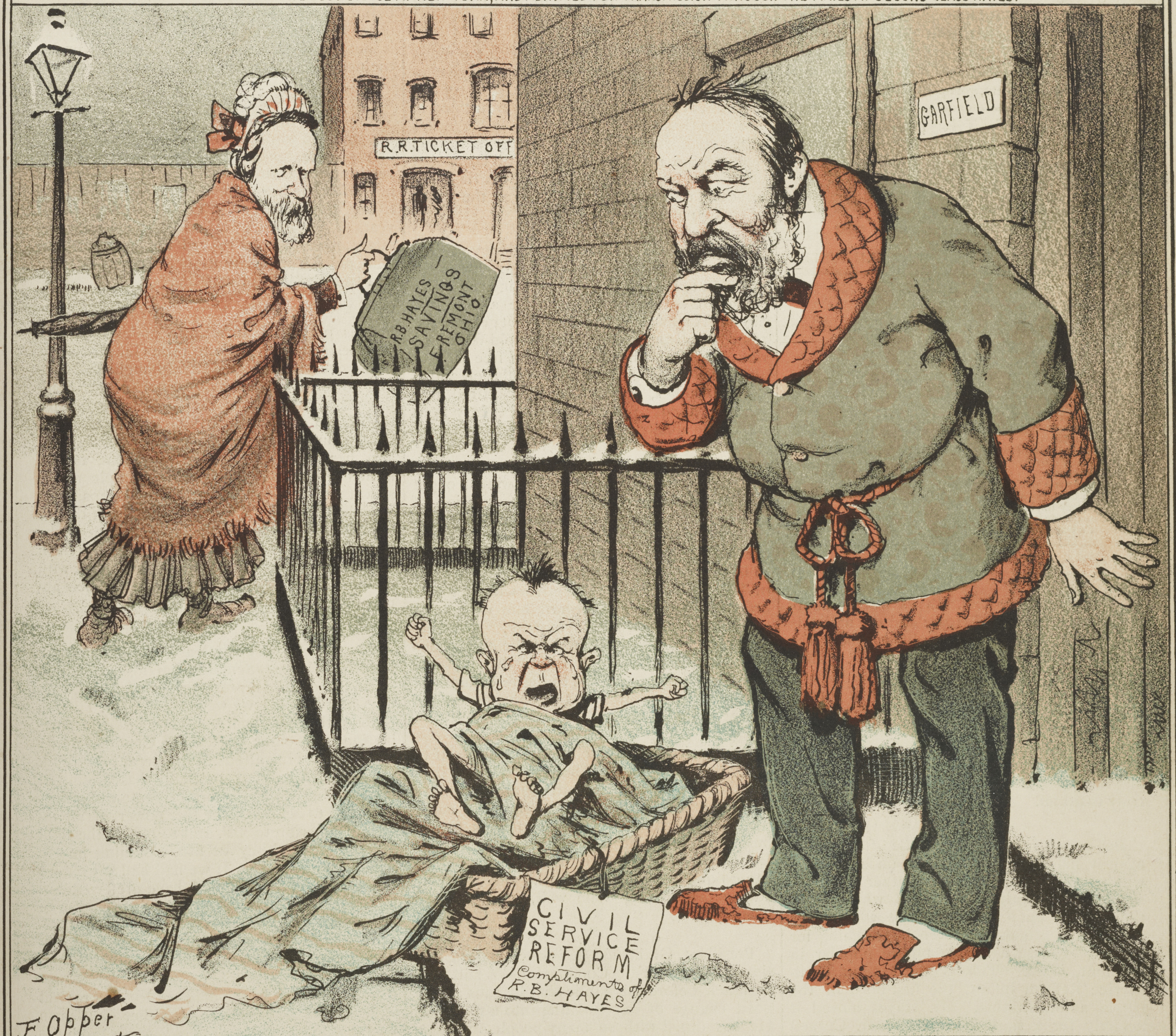 Cartoon showing James Garfield looking at baby in basket with tag, "civil service reform, compliments of R.B. Hayes". Rutherford B. Hayes, dressed as a woman, leaves with bag labeled "R.B. Hayes - savings, Fremont, Ohio".